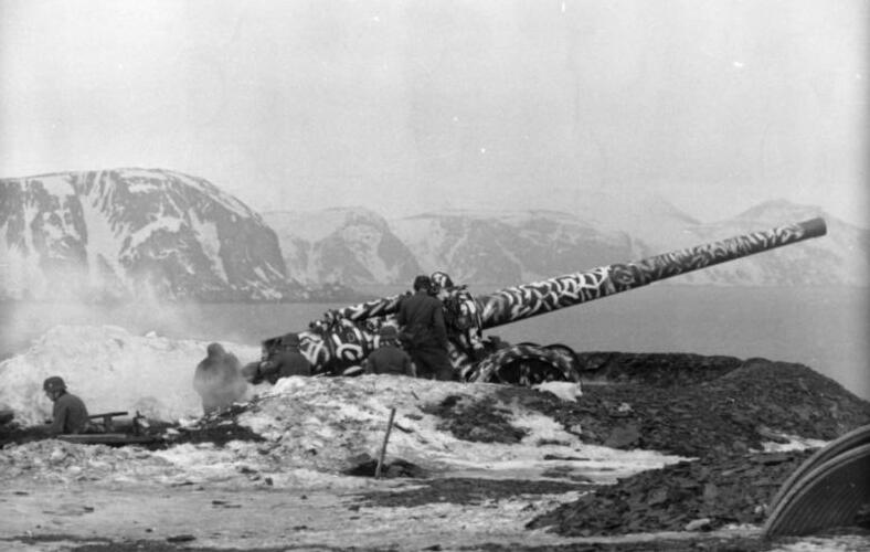 Information added by Wikimedia users.Picture is taken at HKB 5/480 Mehavn